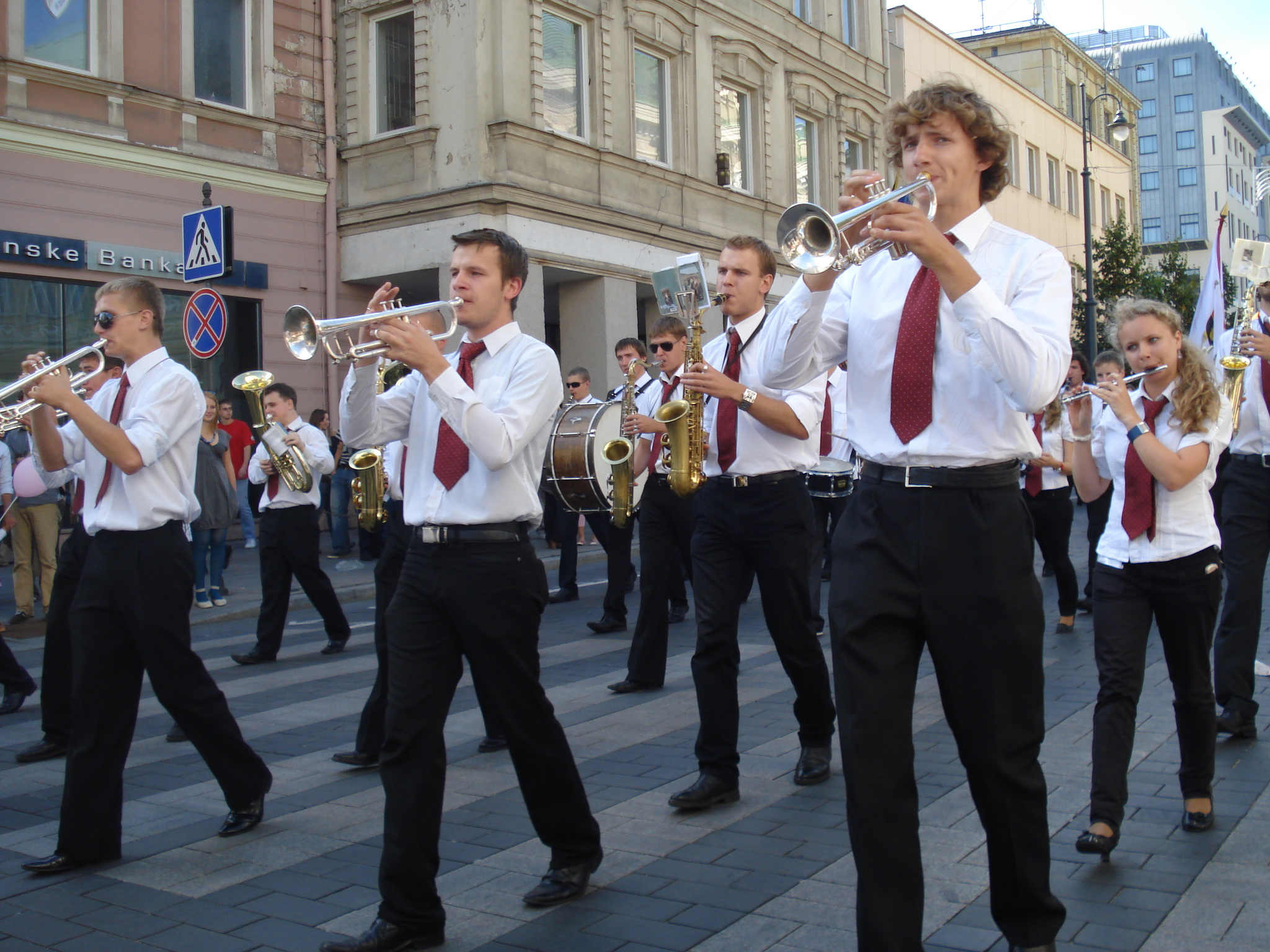 The parade of the Vilnius University. Before the marching 2009.09.01, Gedimino street in Vilnius